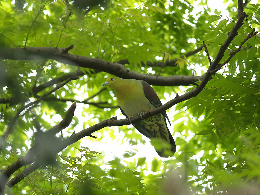 White-bellied Green Pigeon in Taiwan